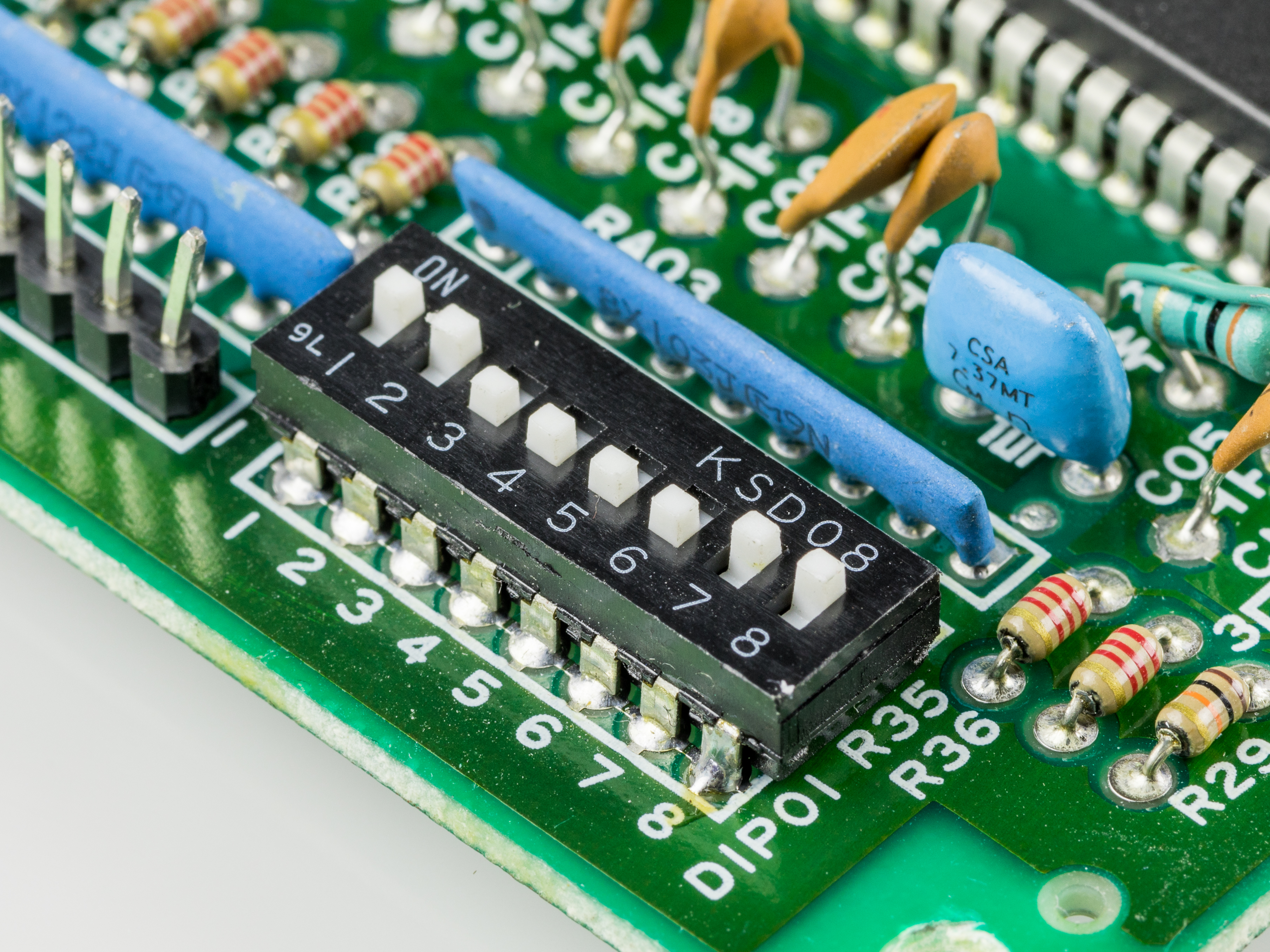 Nedap ESD1 - printer controller - DIP switch